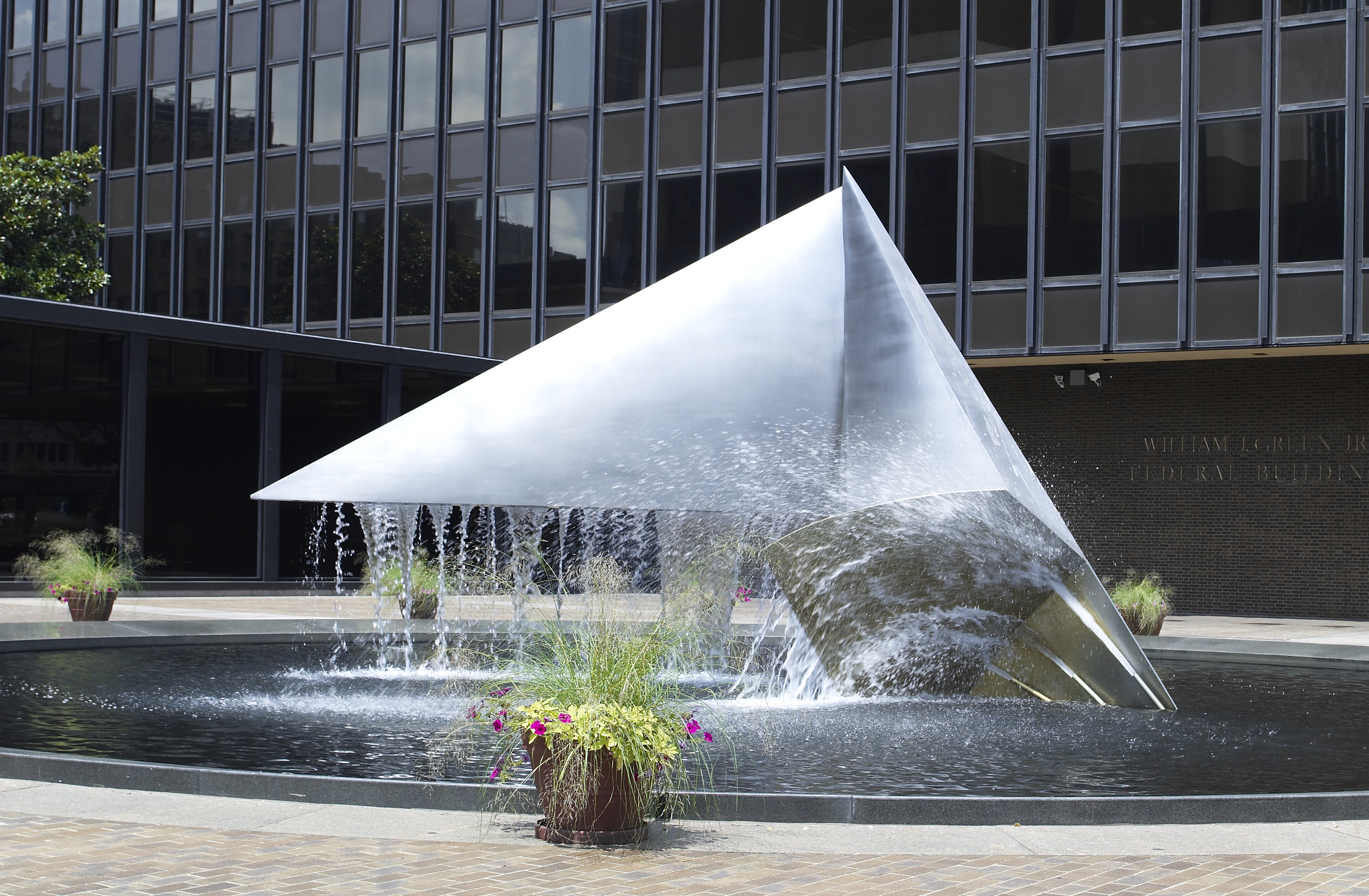 LOC metadata Title: Sculpture "Voyage of Ulysses" located at front plaza exterior, James A. Byrne U.S. Courthouse, Philadelphia, Pennsylvania Creator(s): Highsmith, Carol M., 1946-, photographer Date Created/Published: 2007. Medium: 1 photograph : digital, TIFF file, color. Reproduction Number: LC-DIG-highsm-02458 (original digital file) Rights Advisory: No known restrictions on publication. Call Number: LC-DIG-highsm- 02458 c-P&P(ONLINE) Repository: Library of Congress Prints and Photographs Division Washington, D.C. 20540 USA Notes: Artist: David Von Schlegell, 1977. Stainless steel and water. Photographed as part of an assignment for the General Services Administration. Title information, date, and subject note provided by the photographer. Credit line: Photographs in the Carol M. Highsmith Archive, Library of Congress, Prints and Photographs Division. Gift; Carol M. Highsmith; 2009; (DLC/PP-2009:083). Forms part of the Carol M. Highsmith Archive.